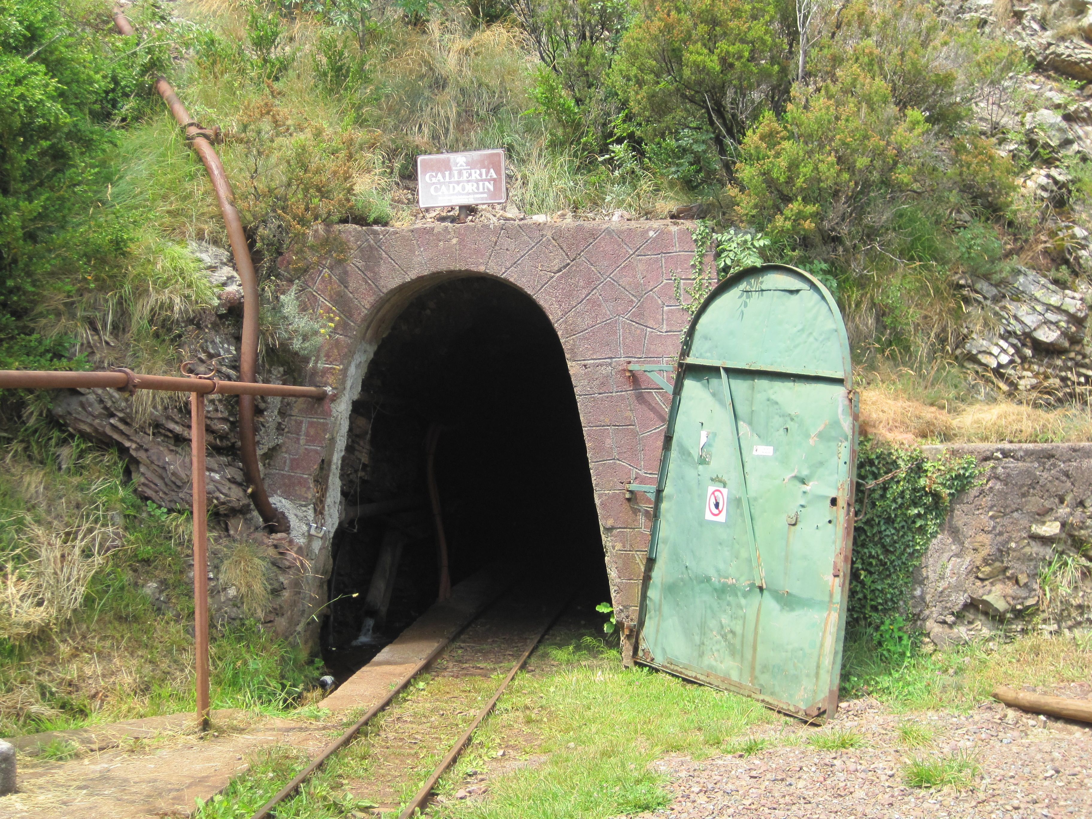 Entrance to the Gambatesa Mine, Ne, Genova